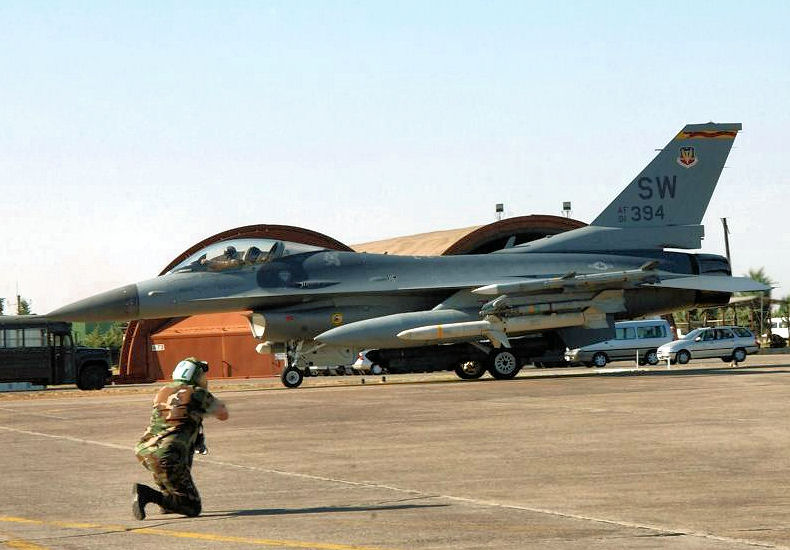 USNavy PO2 Ryan takes a picture of opportunity as USAF F-16C block 50 #91-0394 from the 78th FS leaves on a mission in support of Operation NORTHERN WATCH, from Incirlik AB on September 20th, 2002. [USAF photo by TSgt Anna Hayman]